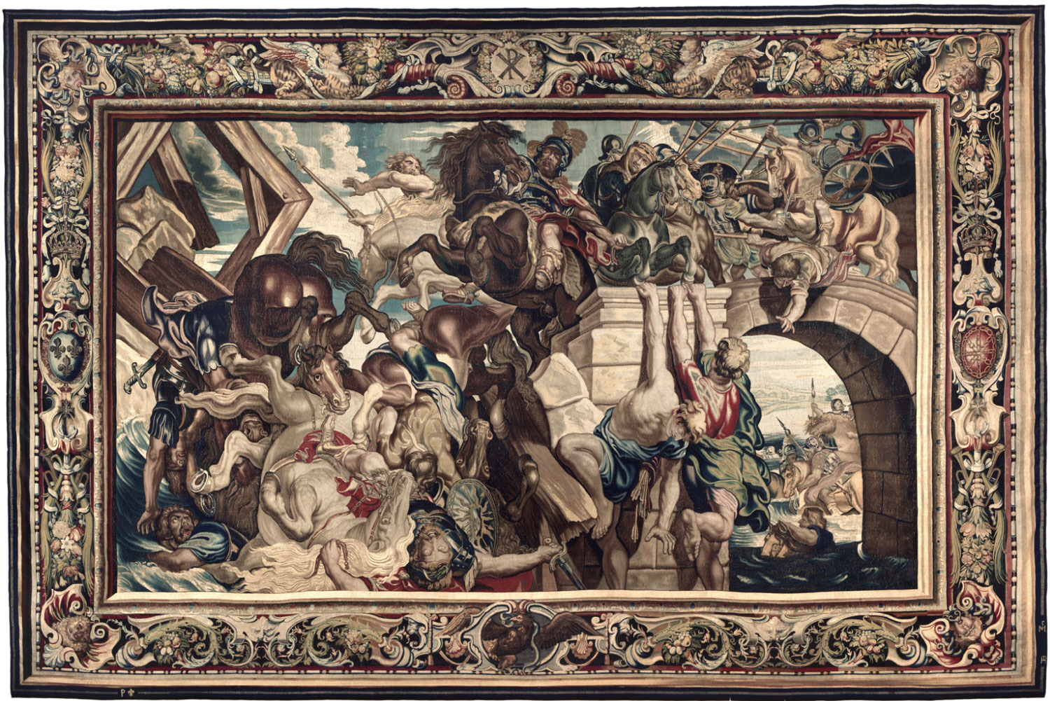 Triumph of Constantine over Maxentius at the Battle of Milvian Bridge. Tapestry (wool and silk with gold and silver threads) from the series "The History of Constantine the Great". Philadelphia Museum of Art, United States. Great Stair Hall Balcony, second floor. ID 1959-78-3. Measurements: 15 feet 11 inches x 24 feet 5 inches. [1]